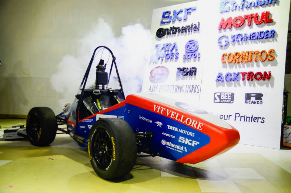 PRV 15 During its Launch